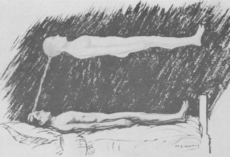 Example of the astral body or phantom detached from the physical body.